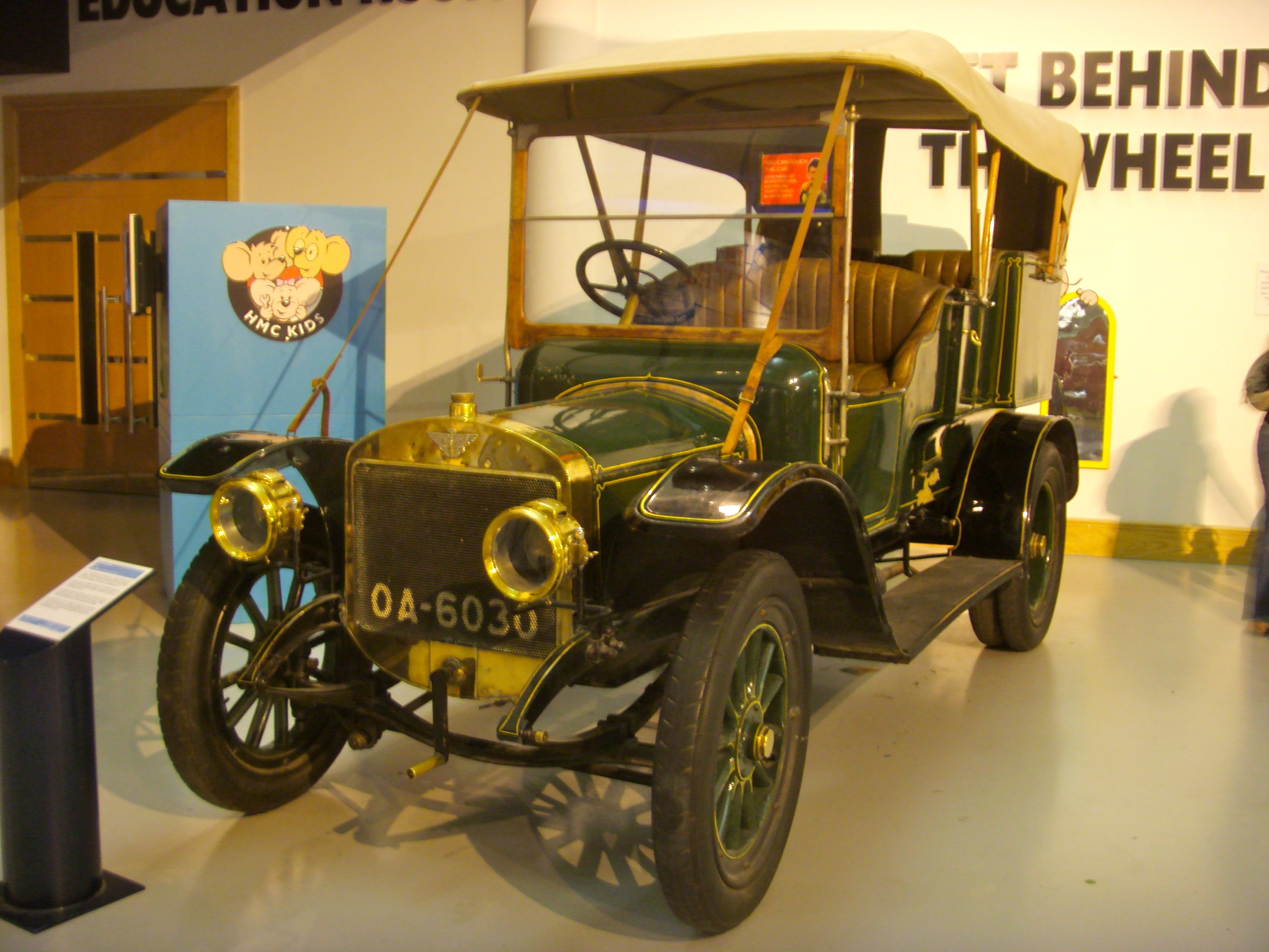 Oldest known surviving Austin